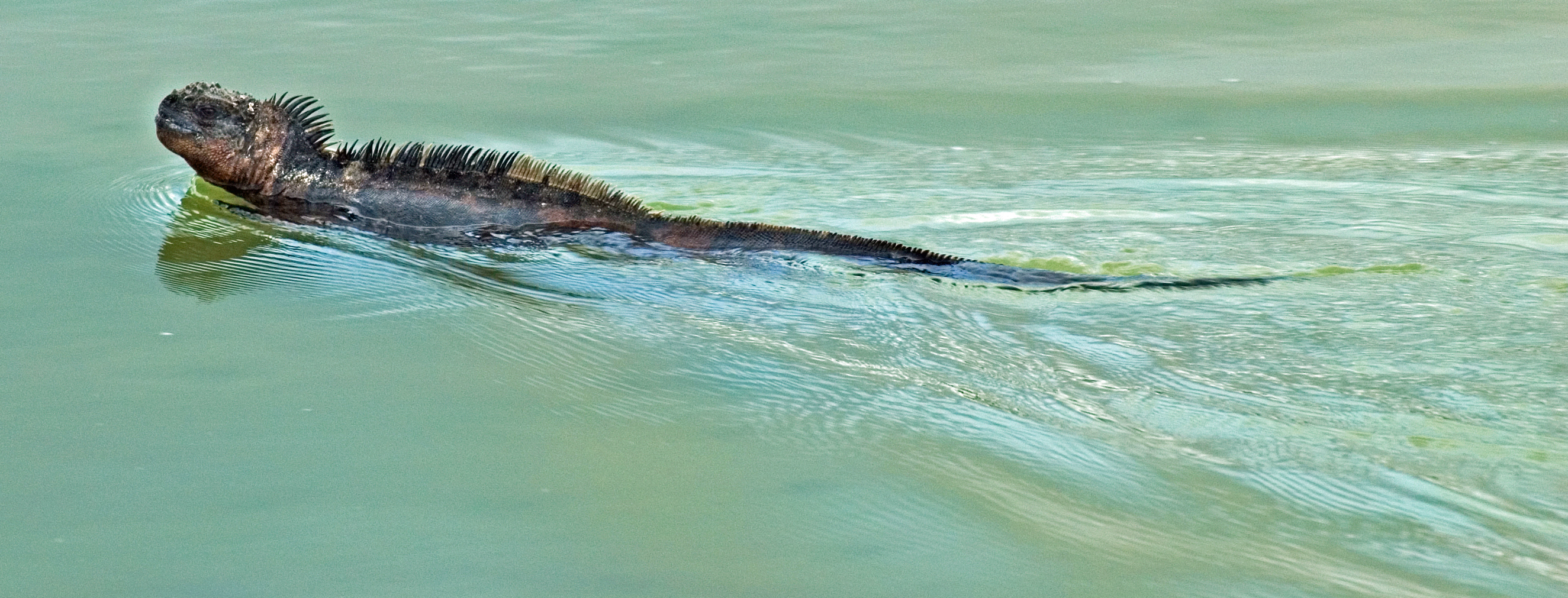 Amblyrhynchus cristatus